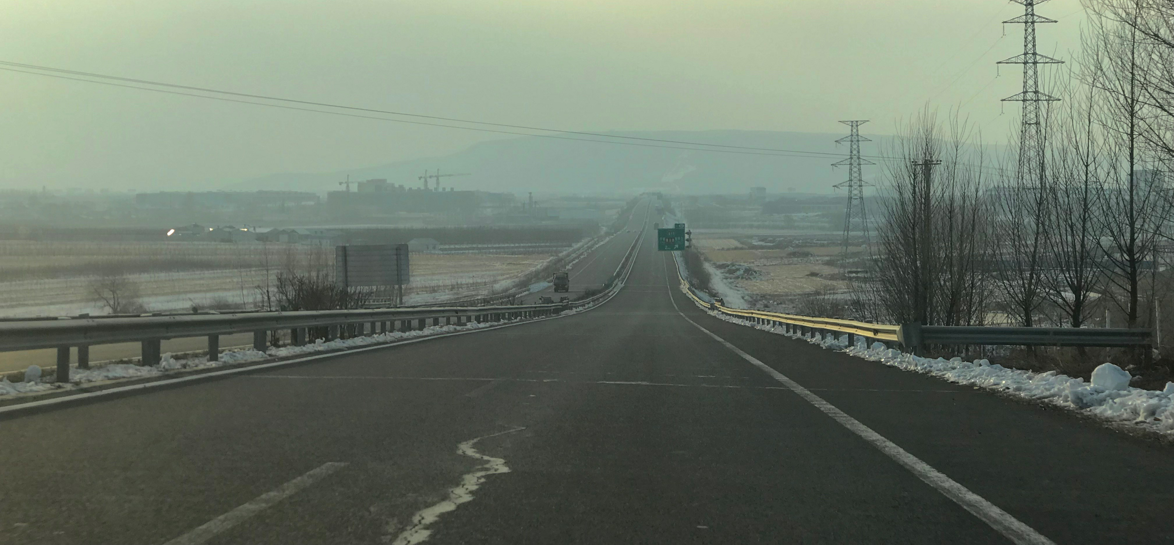 G10 Suiman Expressway - Mudanjiang Section